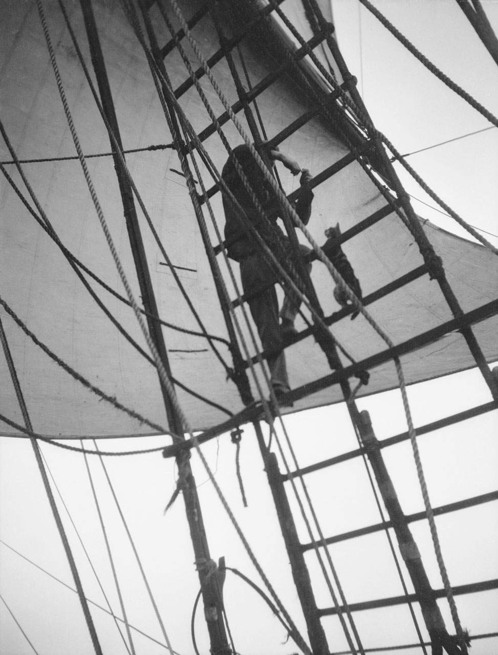 Seaman on the 'Pommern' enticing the ship's cat up on of the shrouds